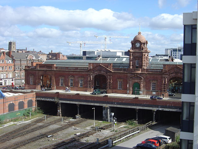 Nottingham Station The main façade seen from the nearby multi-story car park.